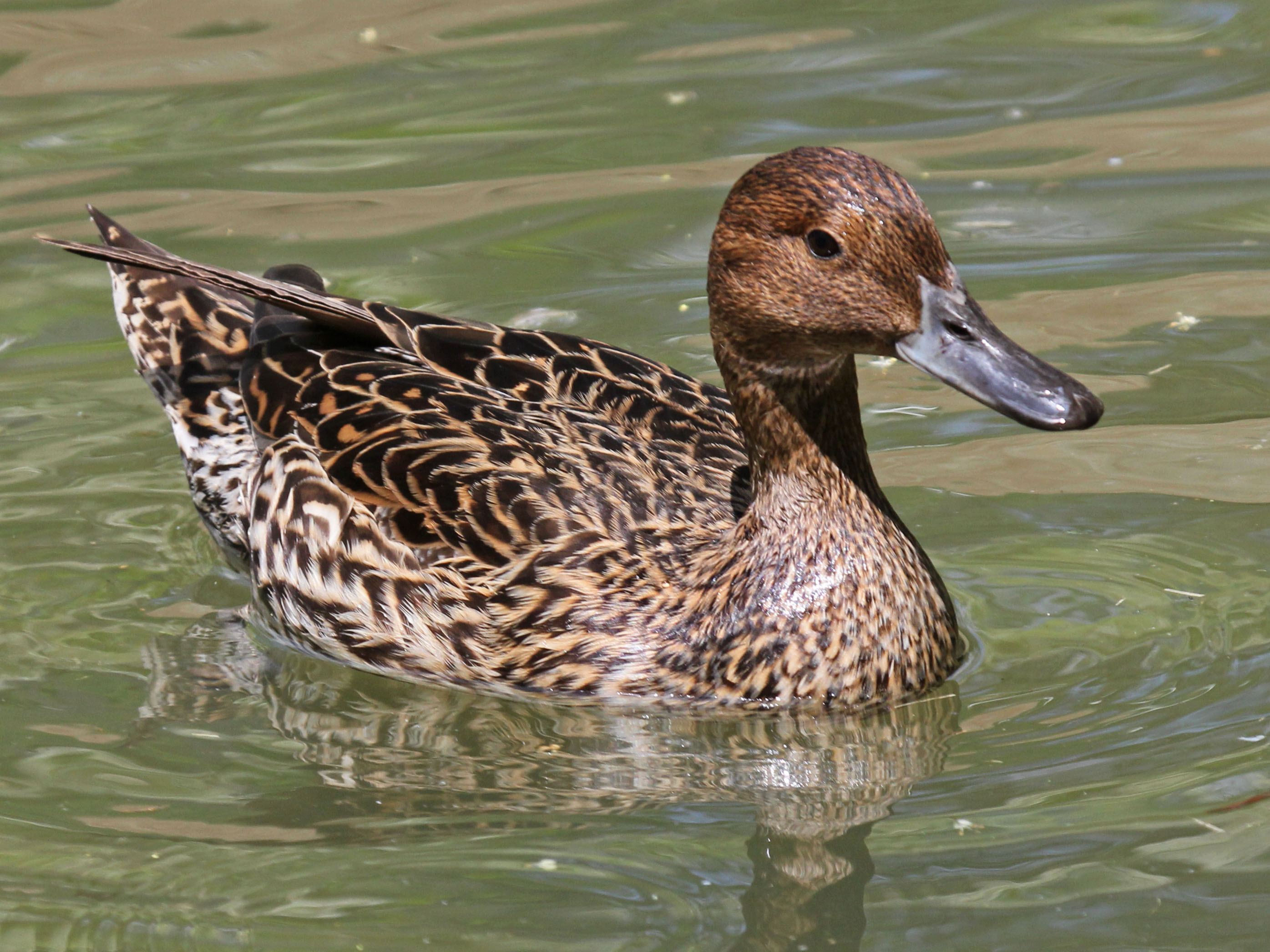 Northern pintail (Anas acuta) - Sylvan Heights Waterfowl Park, Scotland Neck, North Carolina